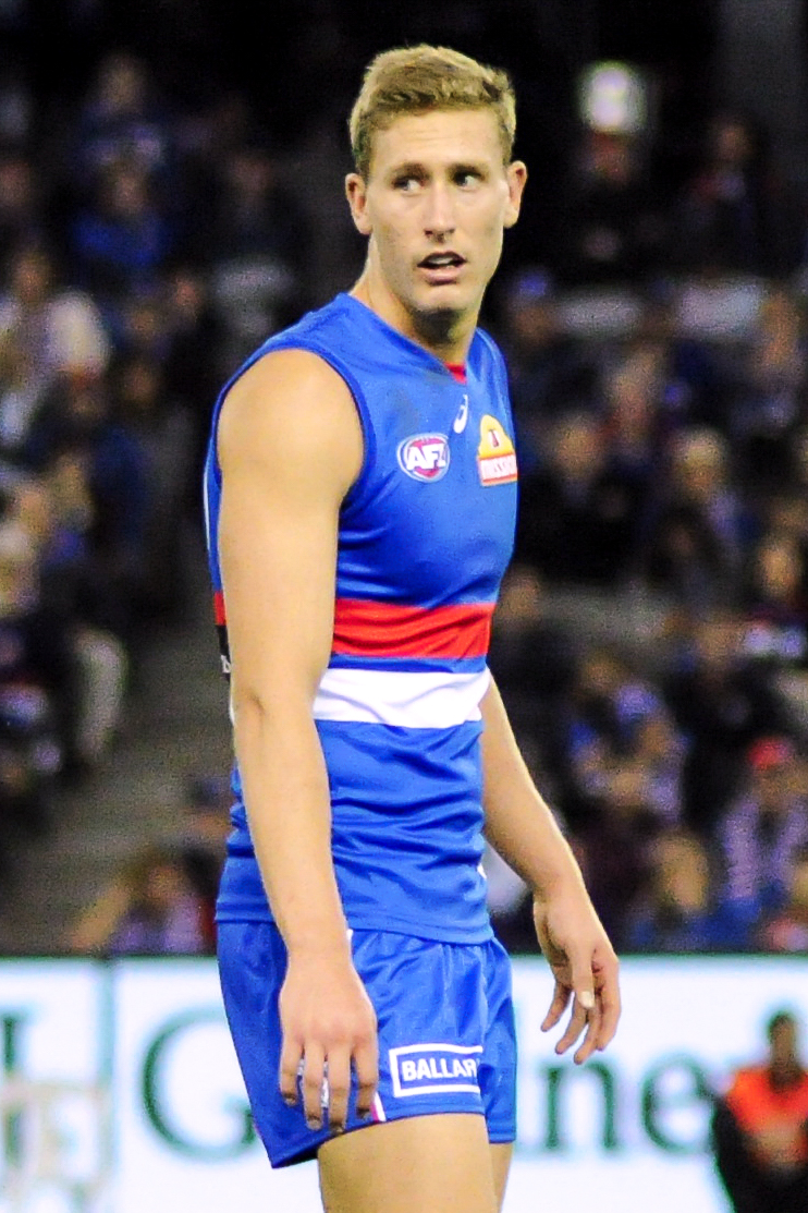 Aaron Naughton during the AFL round six match between the Western Bulldogs and Carlton on Friday, 27 April 2018 at Etihad Stadium in Melbourne, Victoria.